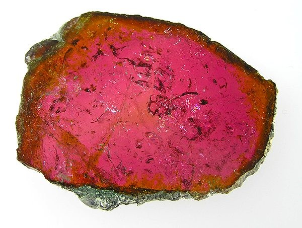 Liddicoatite Locality: Valozoro tourmaline deposits, Ambohimahasoa District, Matsiatra Region, Camp Robin area, Fianarantsoa Province, Madagascar (Locality at ) Size: 5.8 x 4.7 x 0.4 cm. A beautiful slice, polished on both sides, through a large crystal of stunning, gemmy pink tourmaline, from Madagascar. Yes, this is the natural color! Looks like fine stained glass!